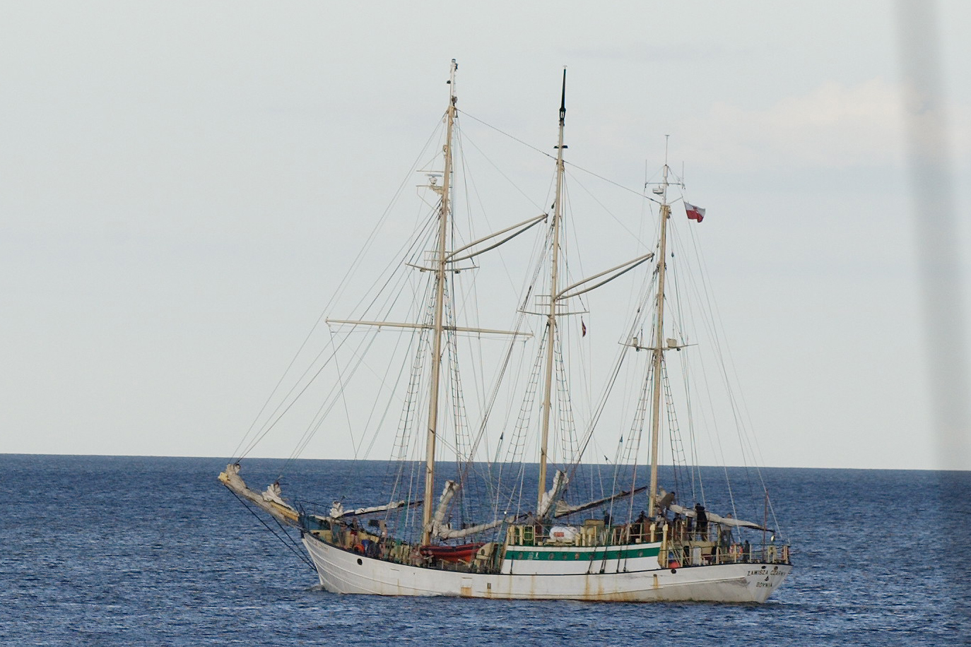 Zawisza Czarna sailing out of Gdynia (its home harbour) at August 14th, 2008 at 19:26 (seen from the deck of Norda)